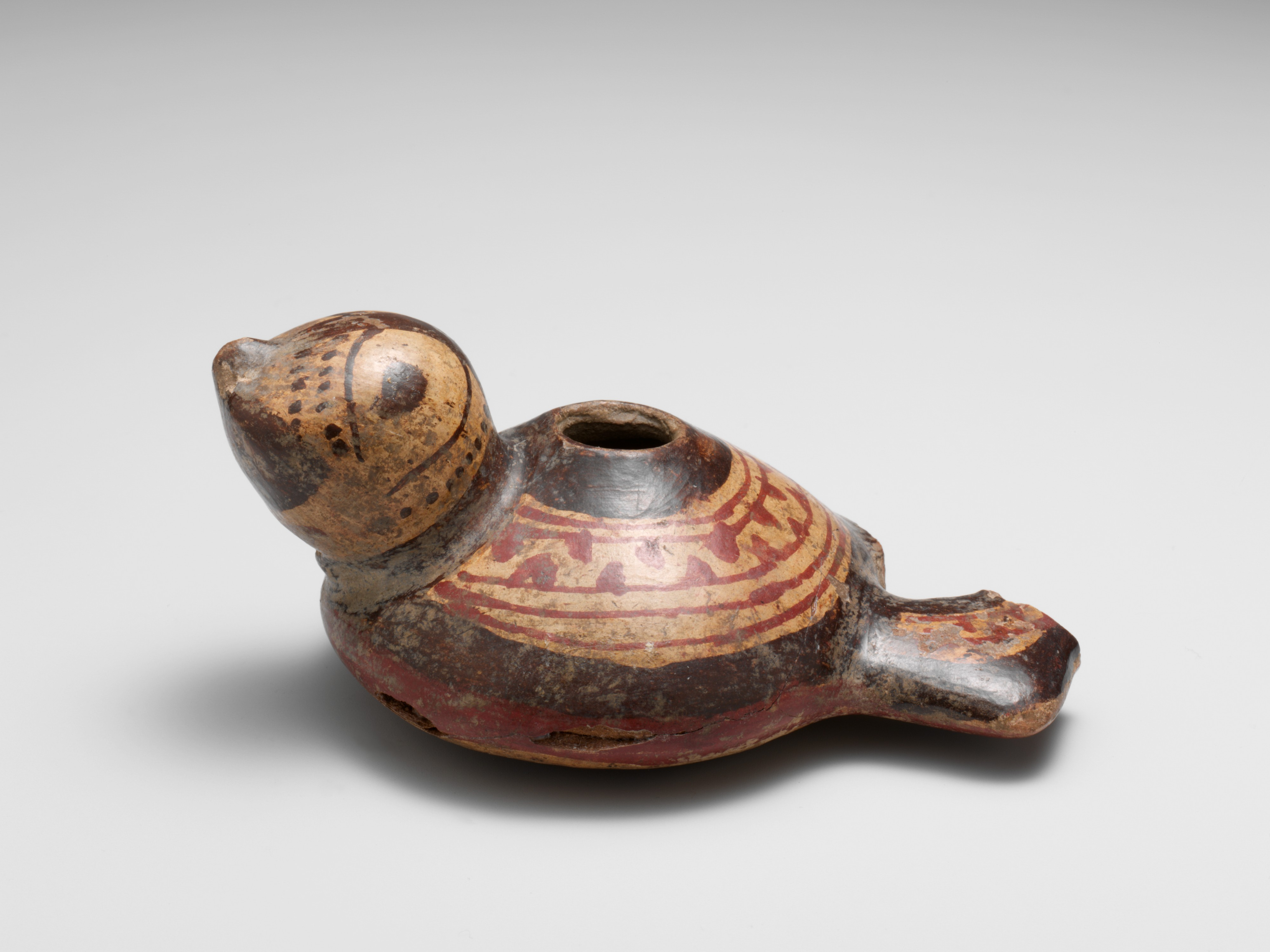 Costa Rican; Pottery Whistle; Aerophone-Whistle Flute-whistle